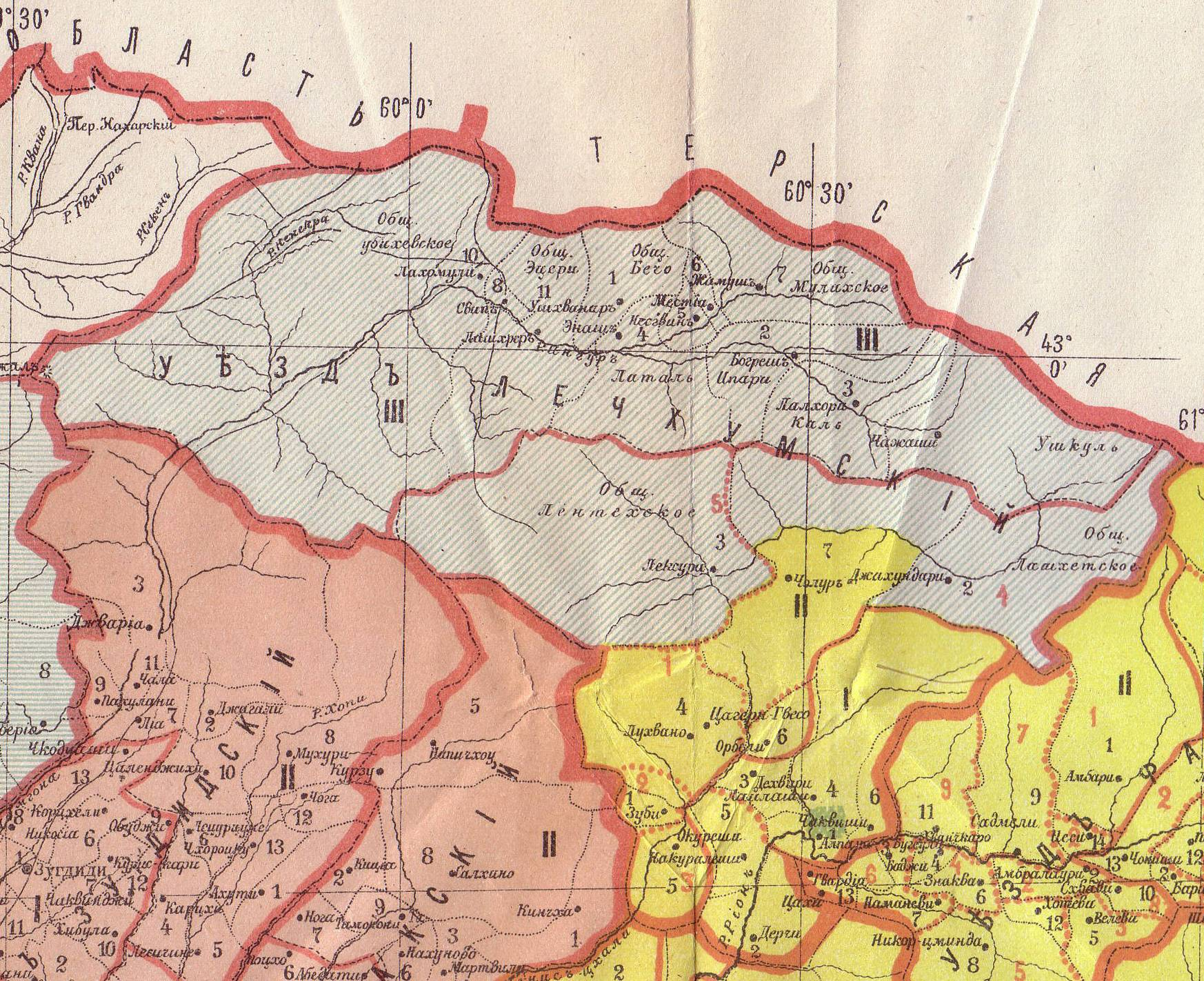 Ethnographic map of the Kutais Governorate